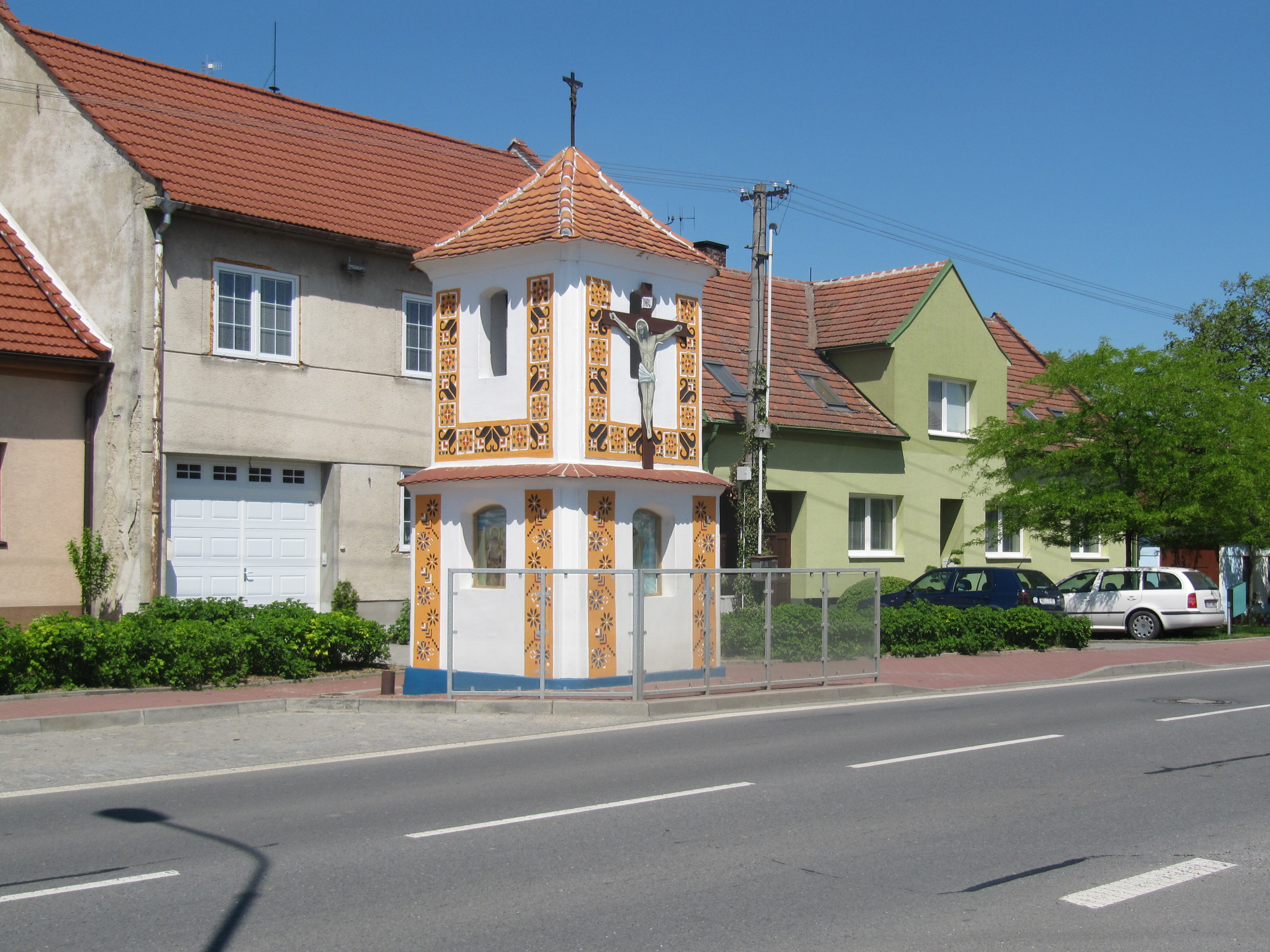 Veselí nad Moravou in Hodonín District, part Zarazice, Czech Republic. Chapel.